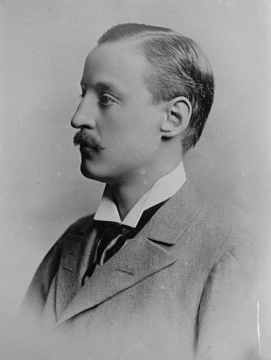 Charles Spencer-Churchill, 9th Duke of Marlborough (1871 – 1934)